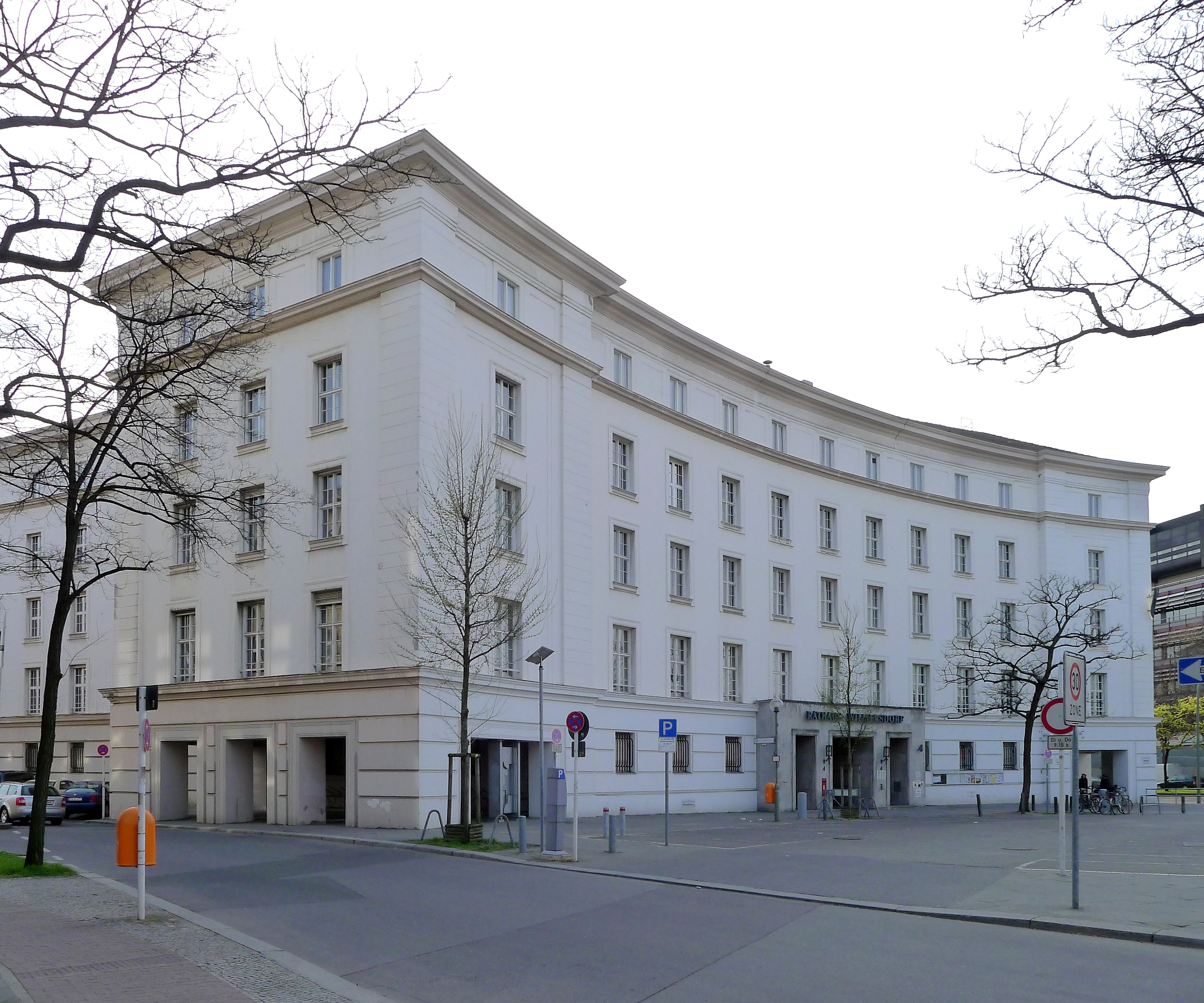 Verwaltungsgebäude